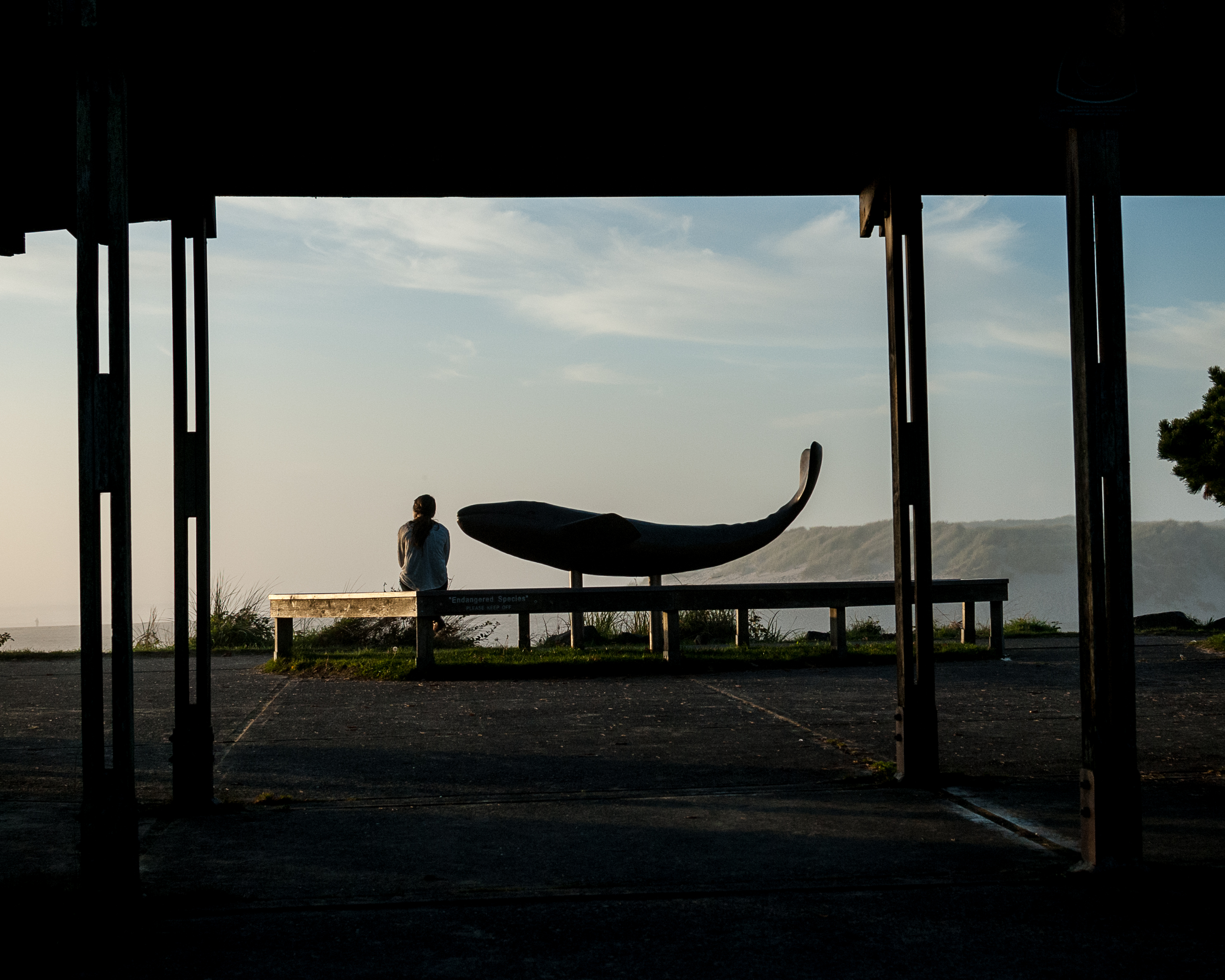 Lady and whale